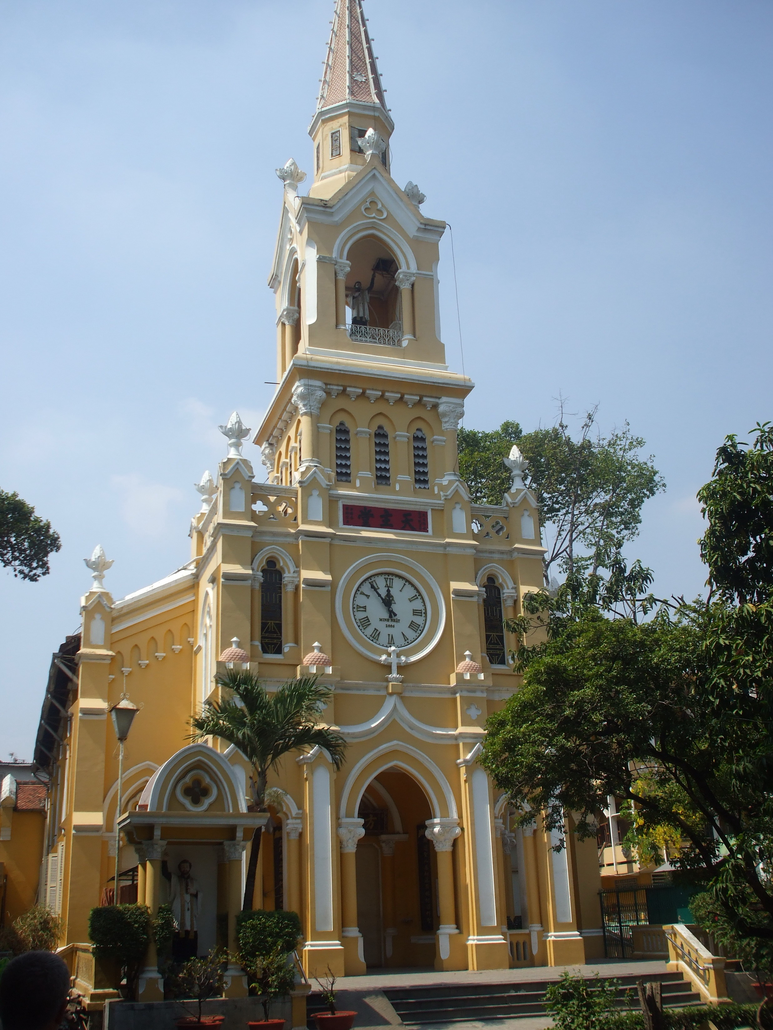 Cha Tam church, where Ngo Dinh Diem and Ngo Dinh Nhu had been praying for the last time before their were assassinated.